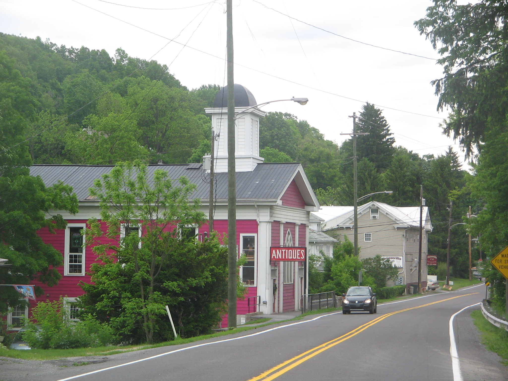 Unionville, Centre County, Pennsylvania, USA - the whole borough is a historic district listed on the National Register of Historic Places